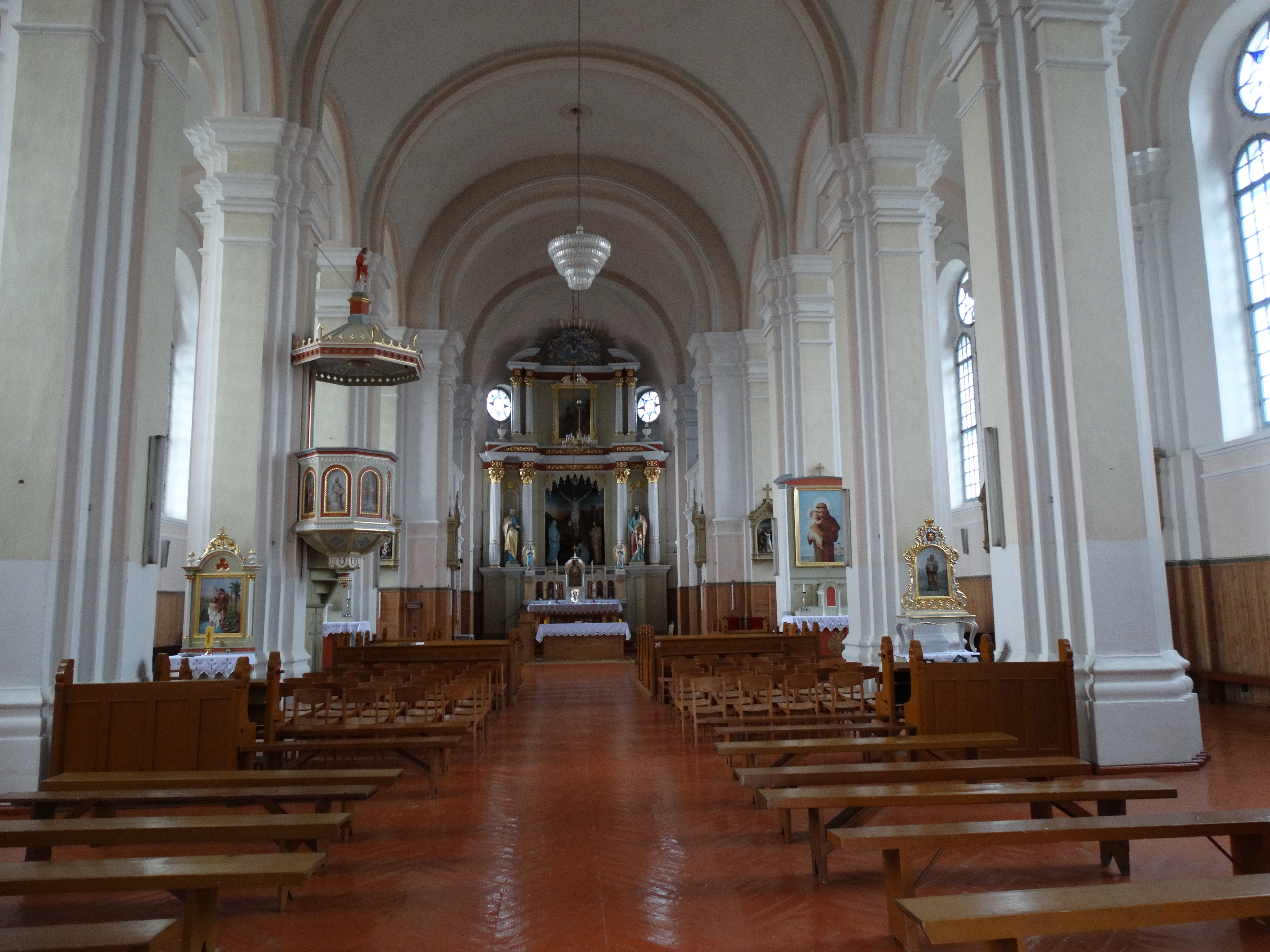 Saint John the Baptist church in Seredžius, Jurbarkas district, Lithuania